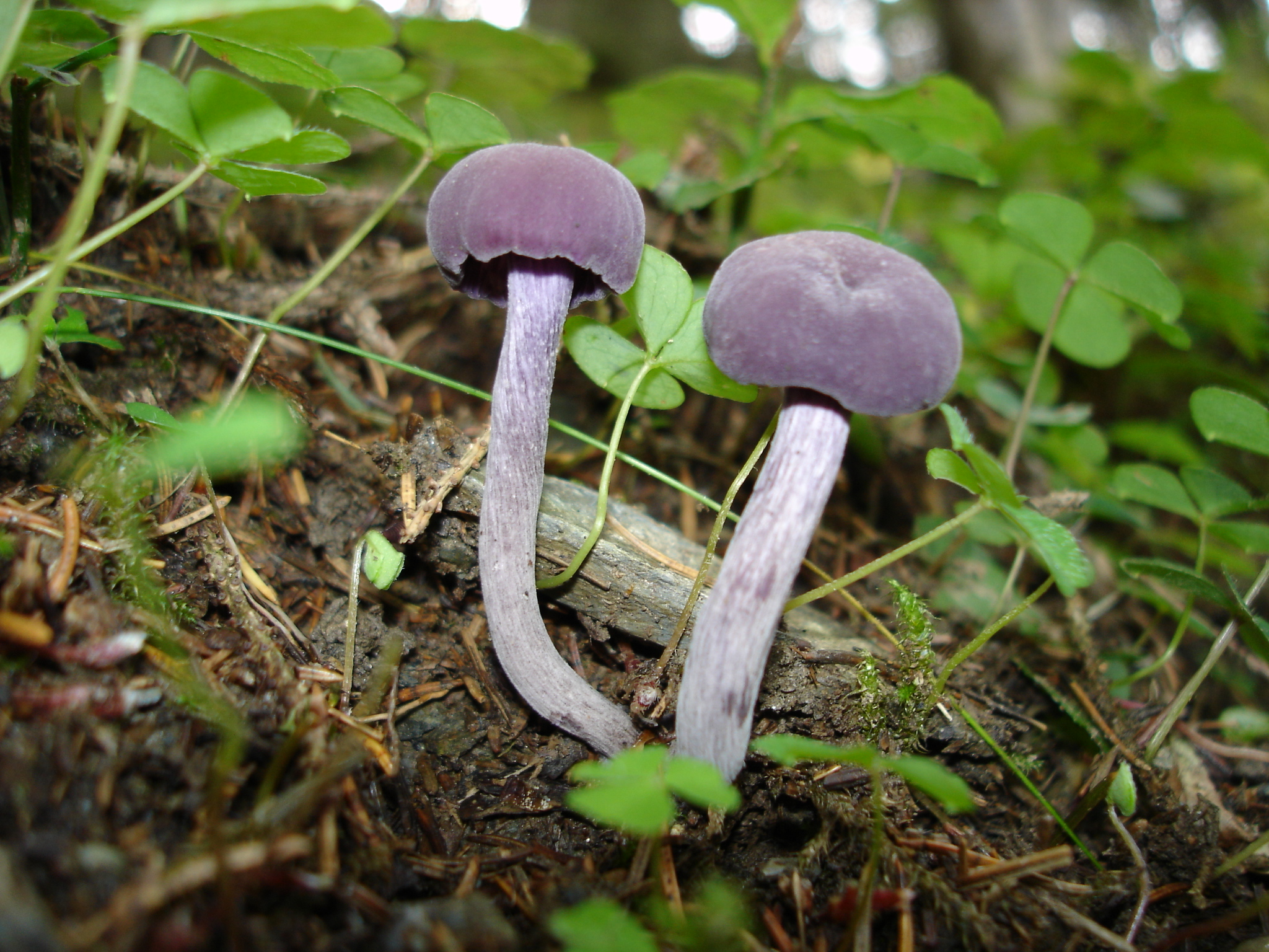 Laccaria amethystea is very similar to Laccaria laccata, except that its overall colour is a deep violet when wet and pale grey when dry.